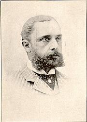 Frederick J. Kimball, photo from WPA project